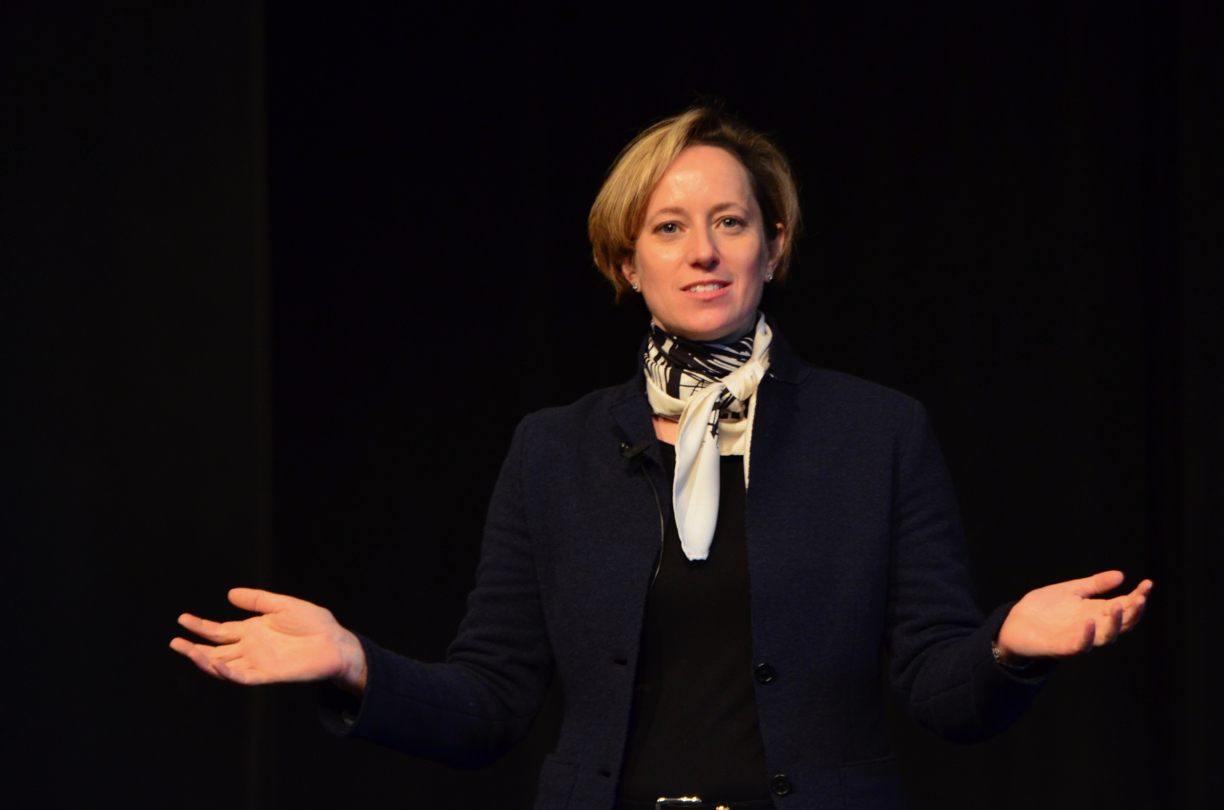 Lisa Damour giving a talk at Balmoral Hall School in February 2017